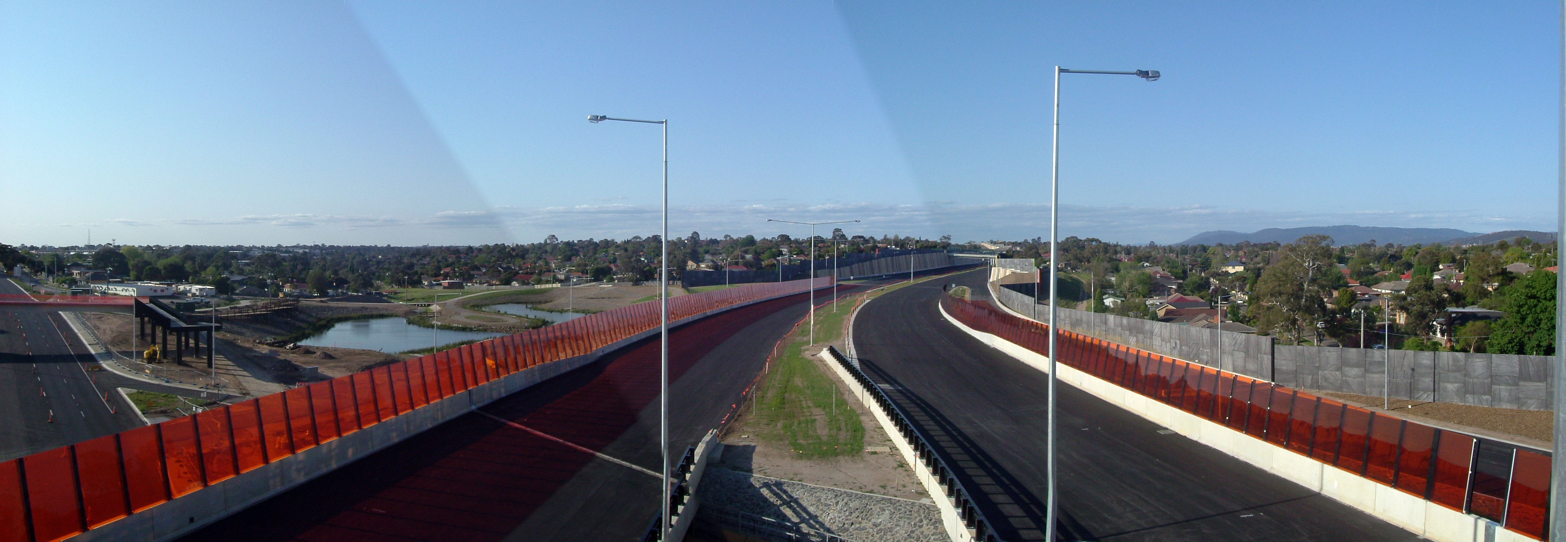 The view of EastLink, Melbourne to the north taken from the Heatherton Road bridge during October 2007 when the tolled freeway was nearing completion. Can be used by anyone for any purpose.